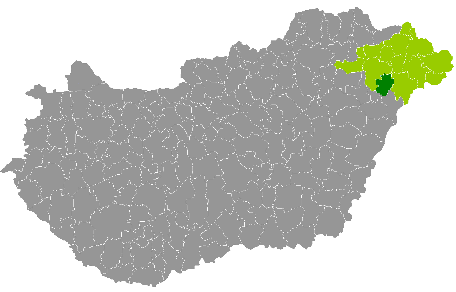 Location of Nagykálló District, Szabolcs-Szatmár-Bereg, Hungary